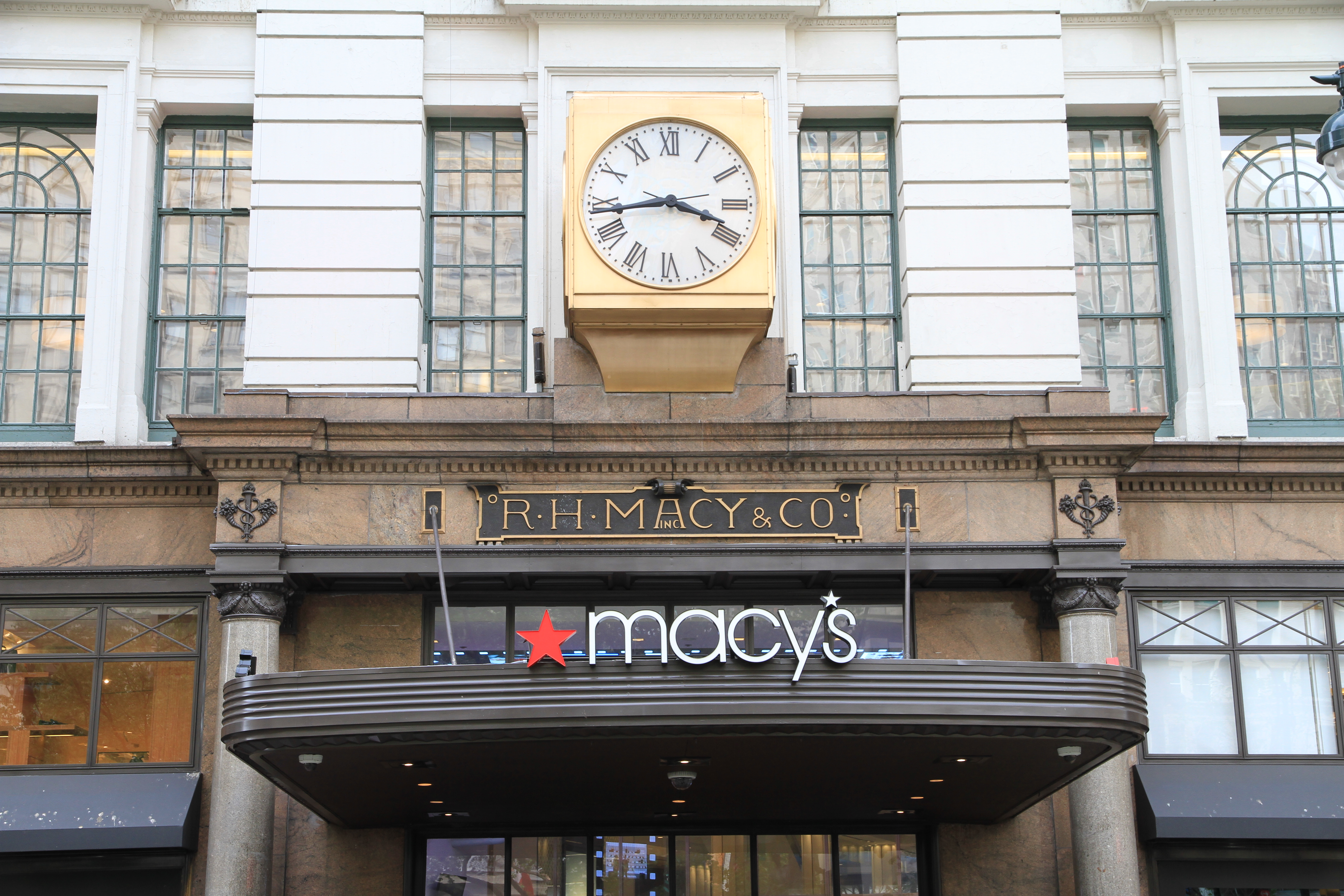 Macy's